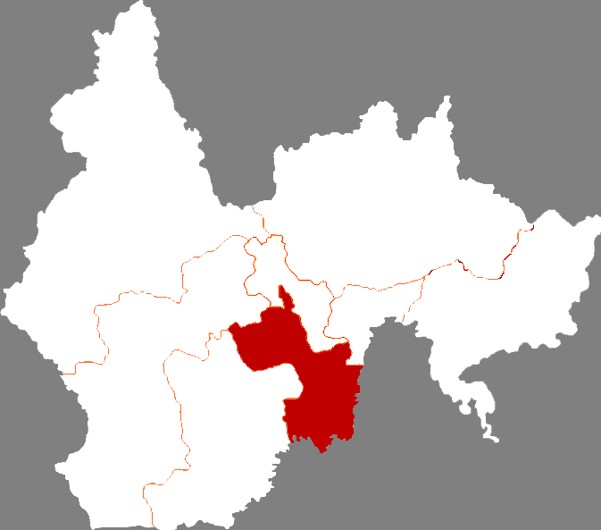 Location of Longjing county-level city in Yanbian Korean Autonomous Prefecture, China